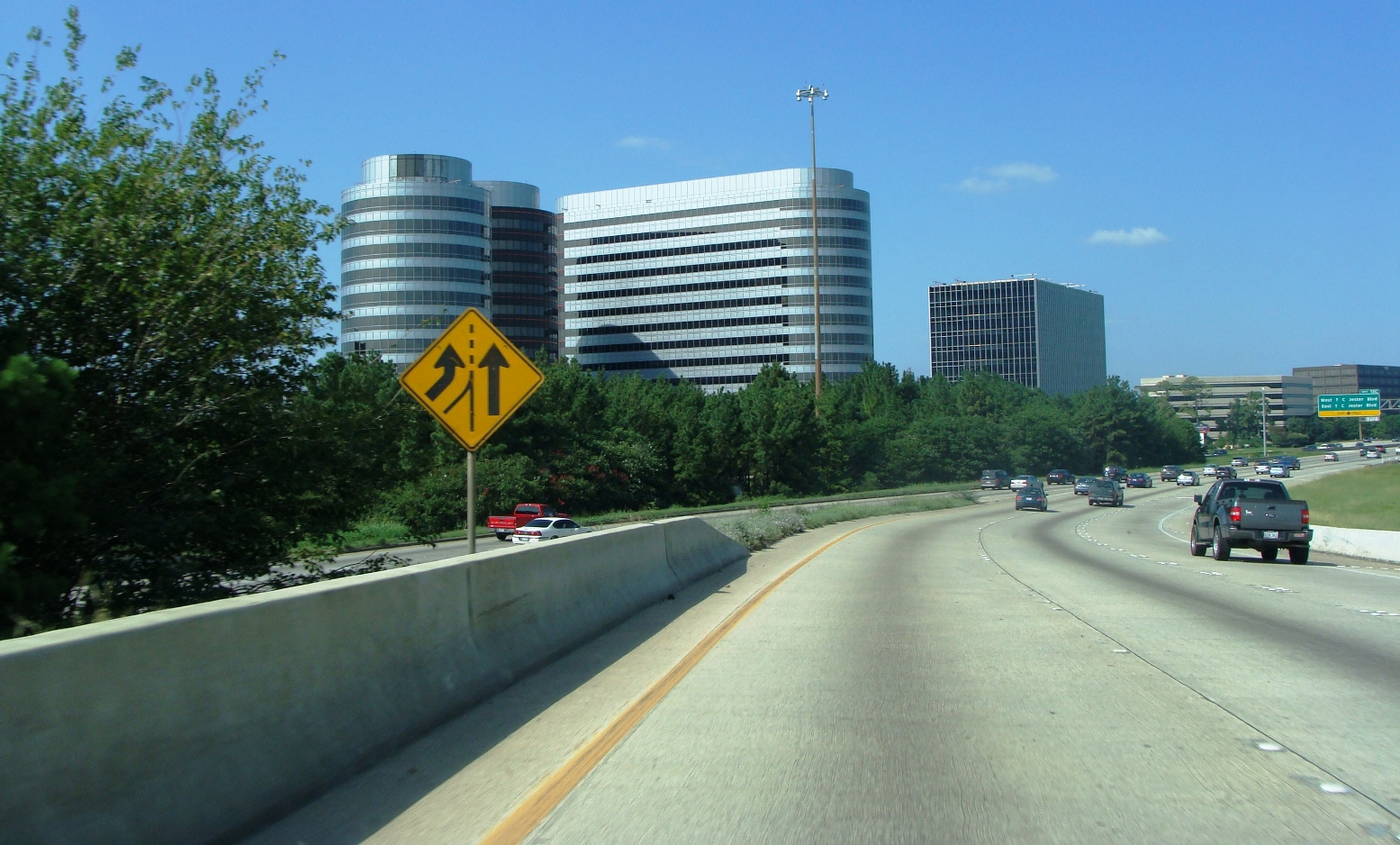 I-610 in Houston, right off of I-10 going northeast.